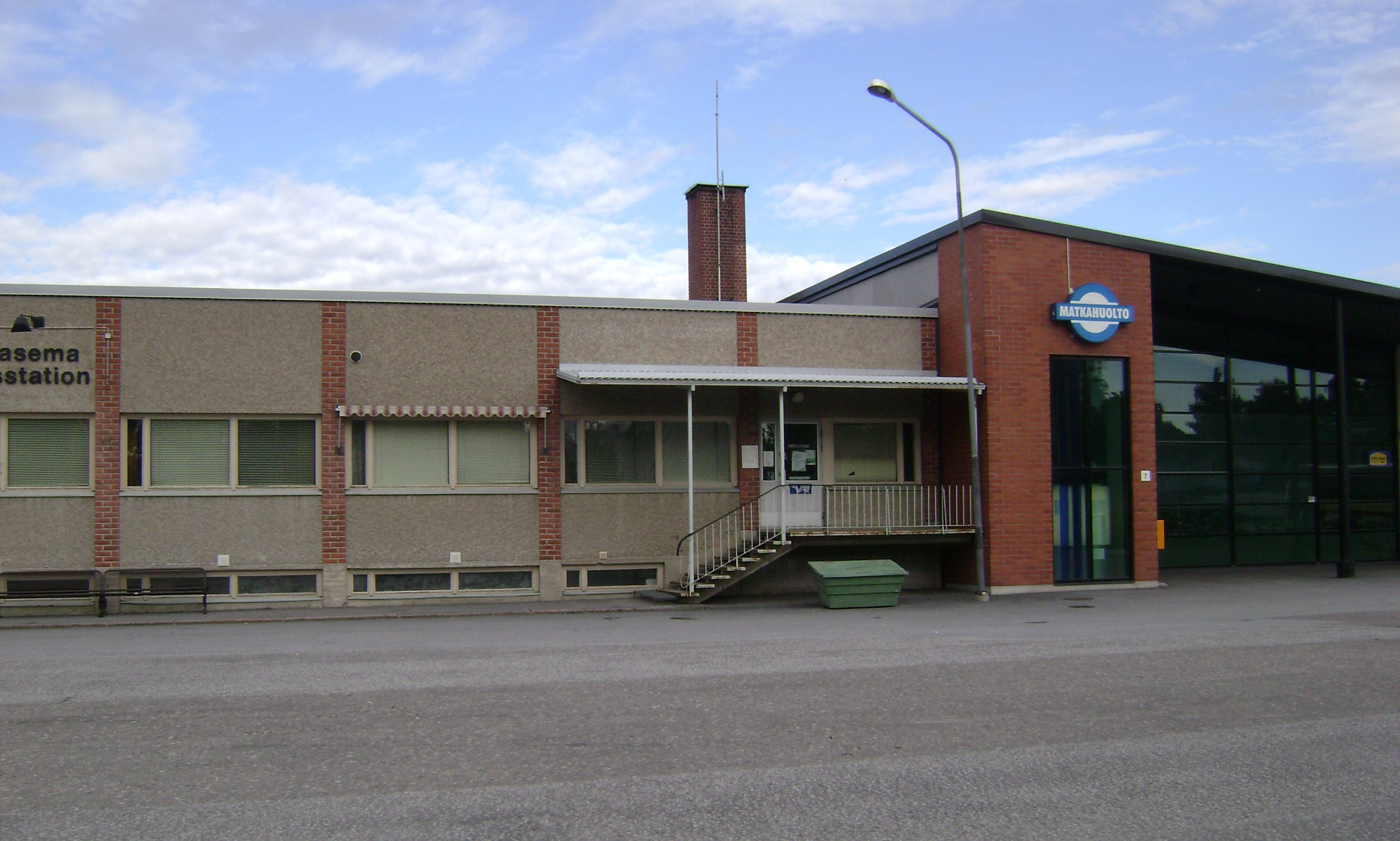 Jakobstad railway and bus station.